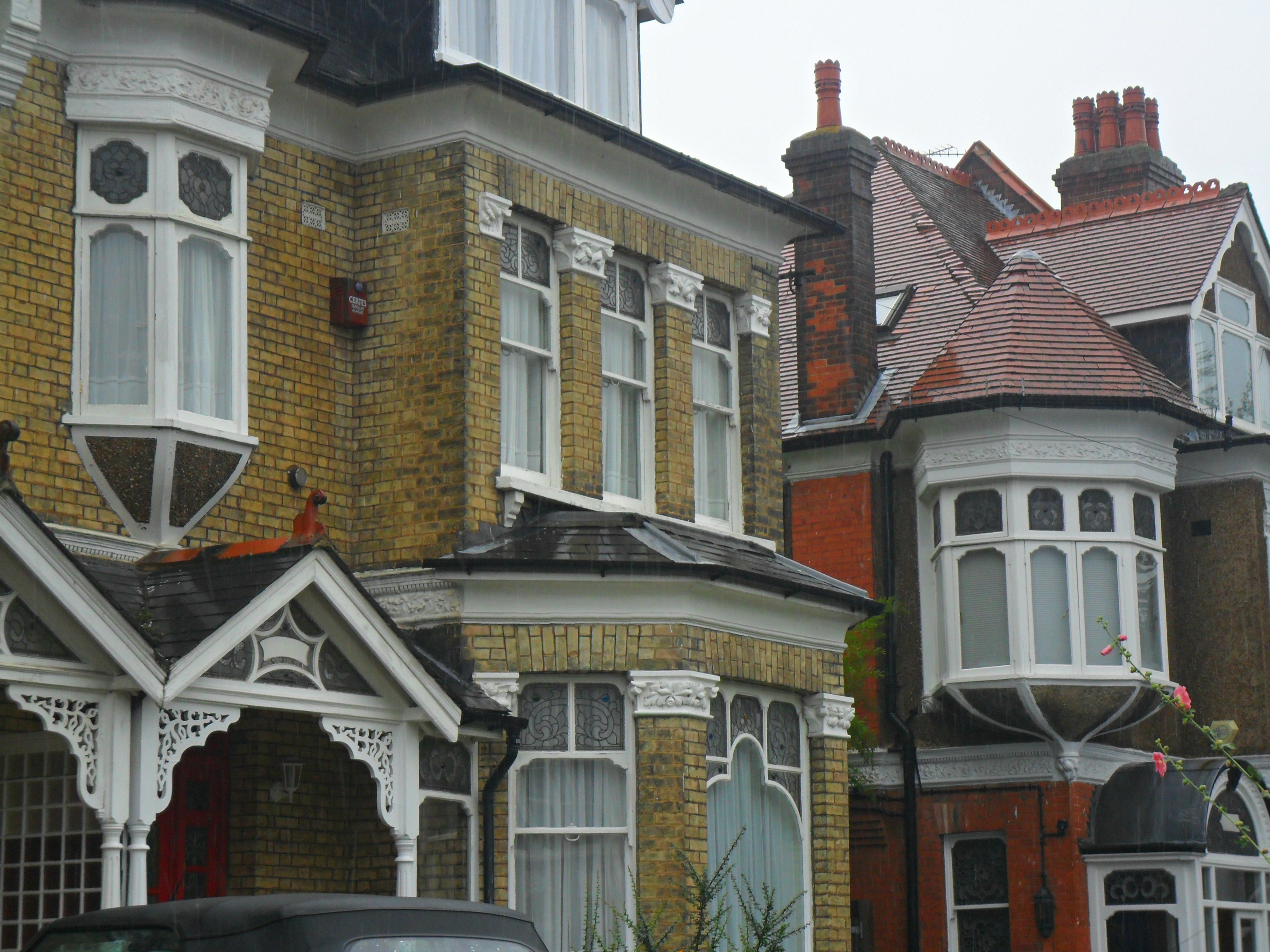 Houses in one of Sutton's conservation areas